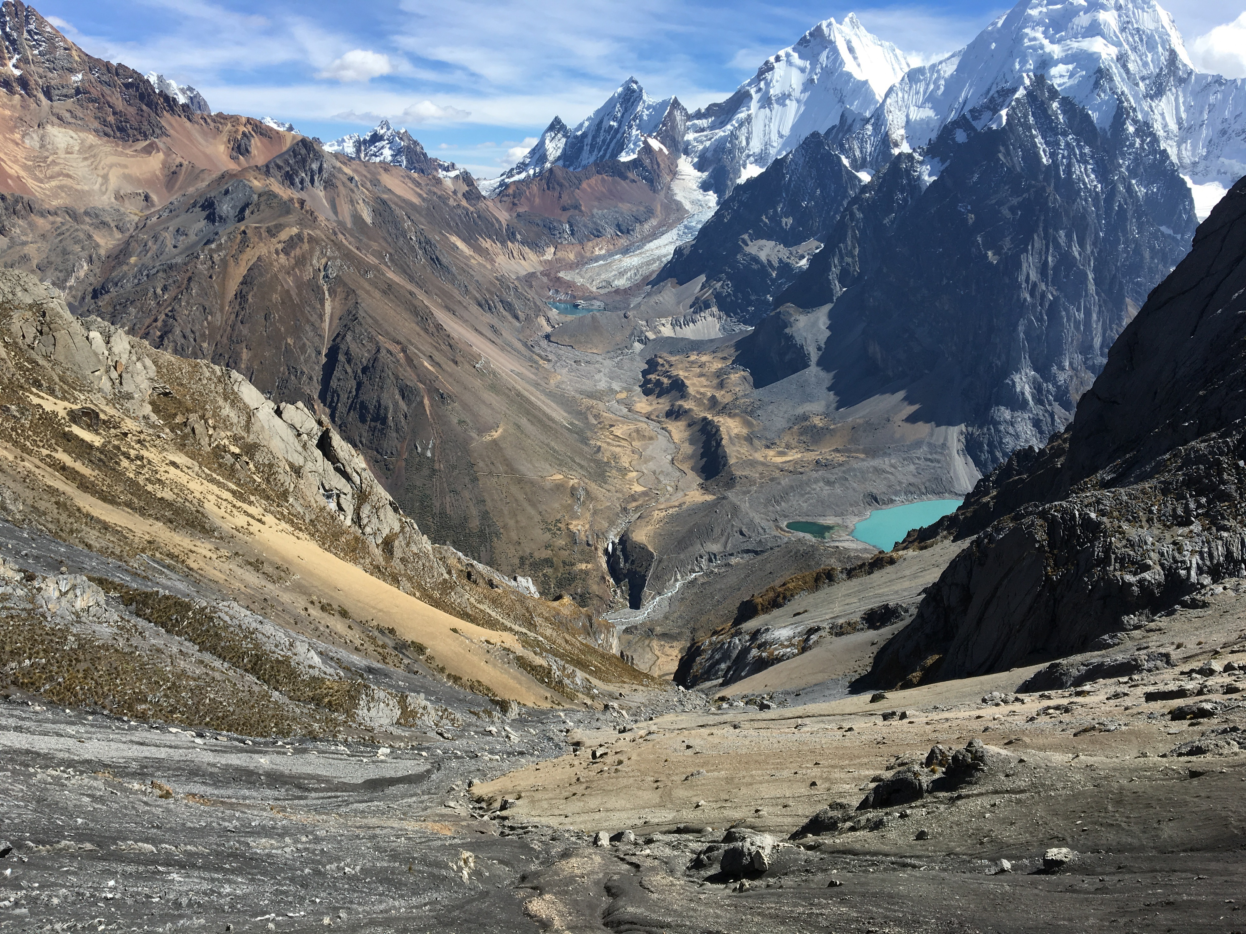 On the Cordillera Huayhuash circuit in Peru